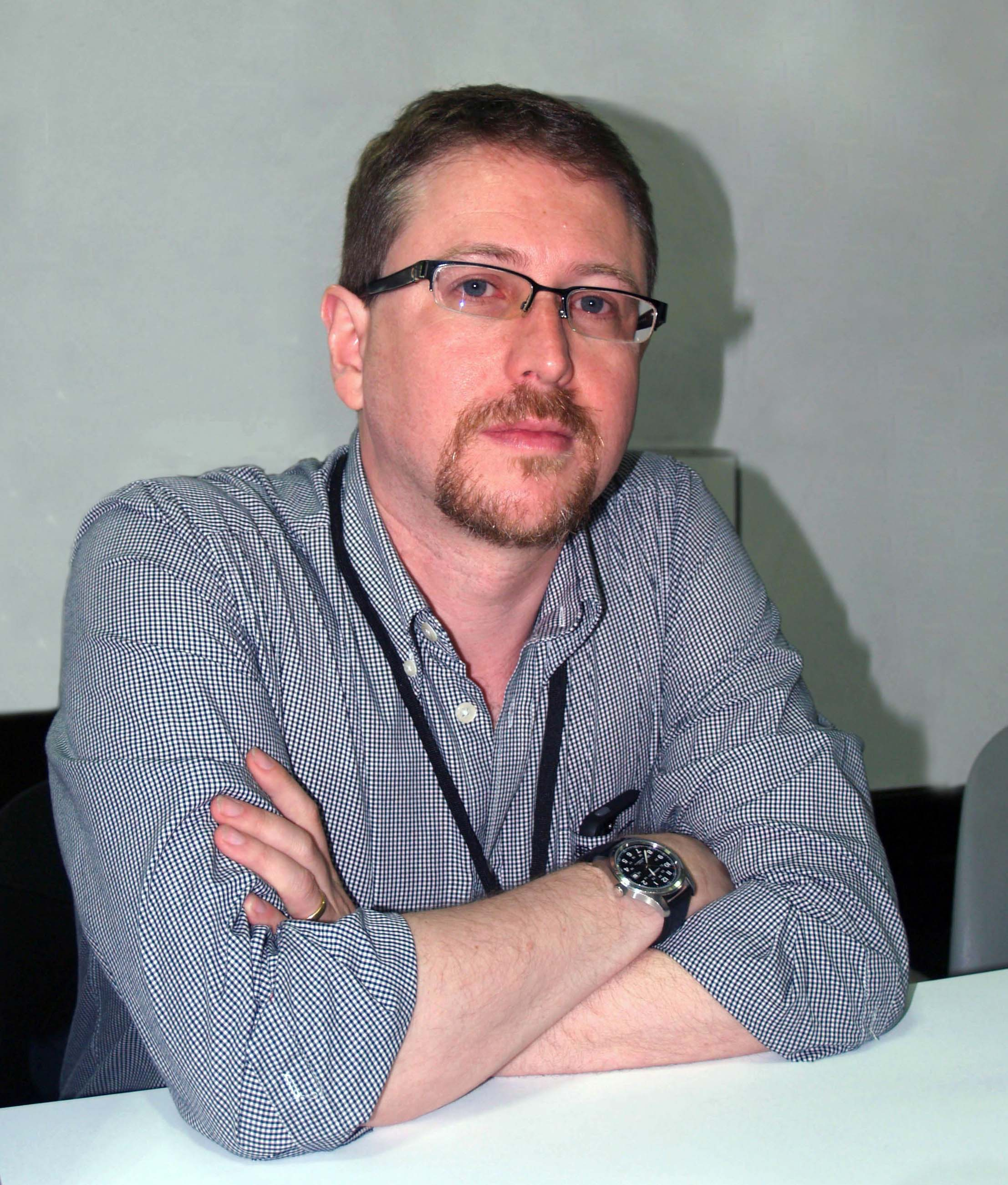 Comics creator Andy Diggle on Saturday, June 14, 2014, Day 1 of Special Edition NYC, a comic book convention at the Jacob K. Javits Convention Center in Manhattan. This photo was created by Luigi Novi. It is not in the public domain, and use of this file outside of the licensing terms is a copyright violation.